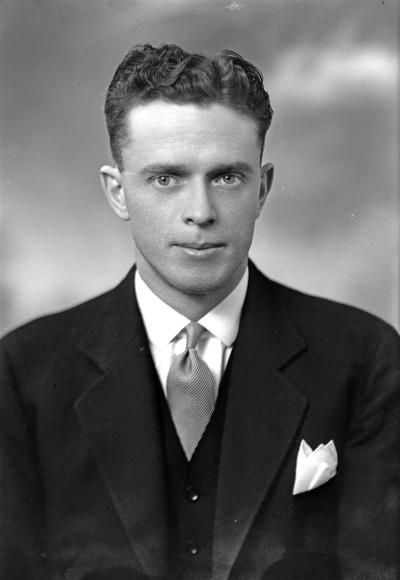 Representative John N. Sylvester, 1937